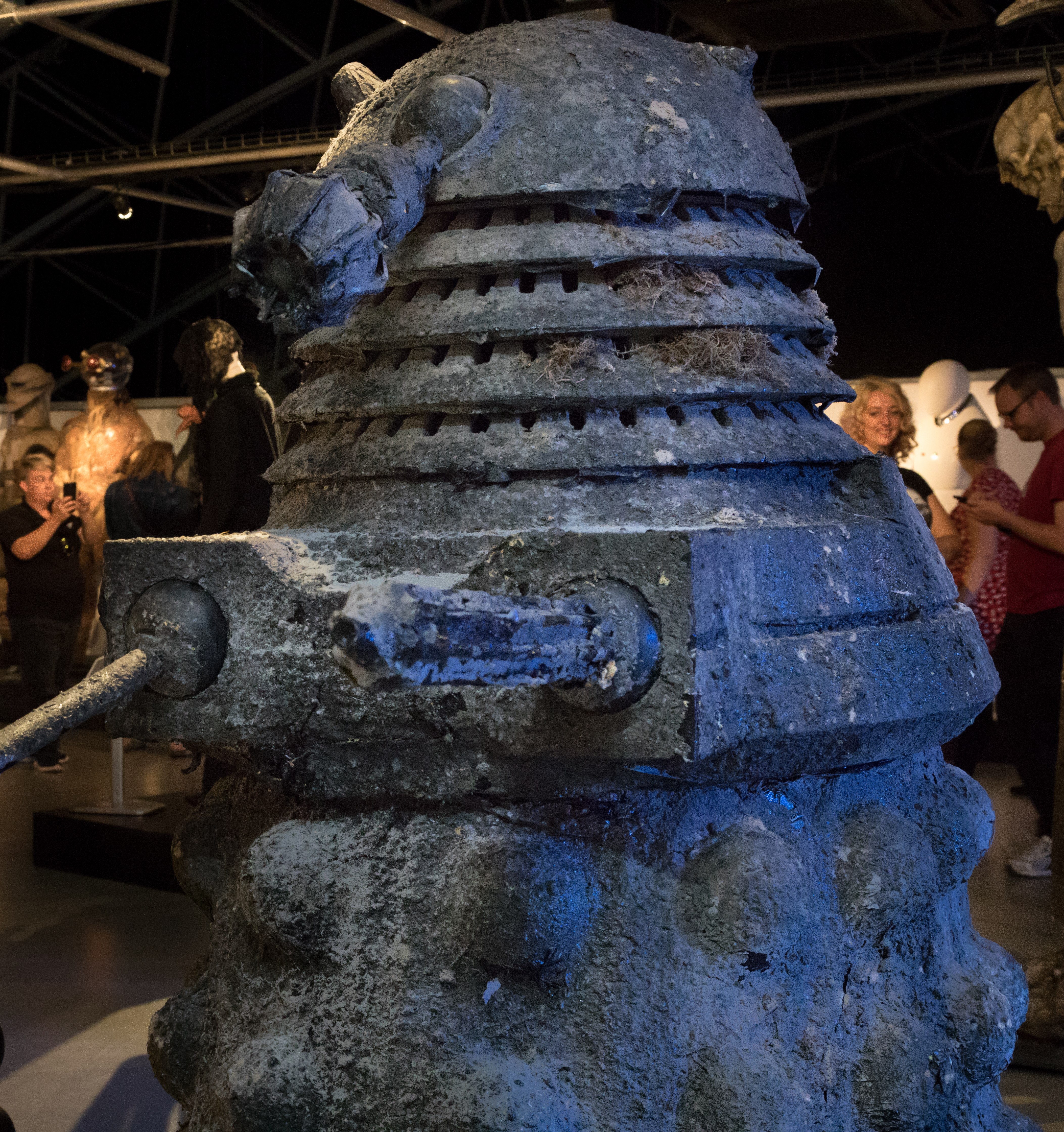 Click here to view my Doctor Who collection Click here to view my Doctor Who locations collection Doctor Who Experience